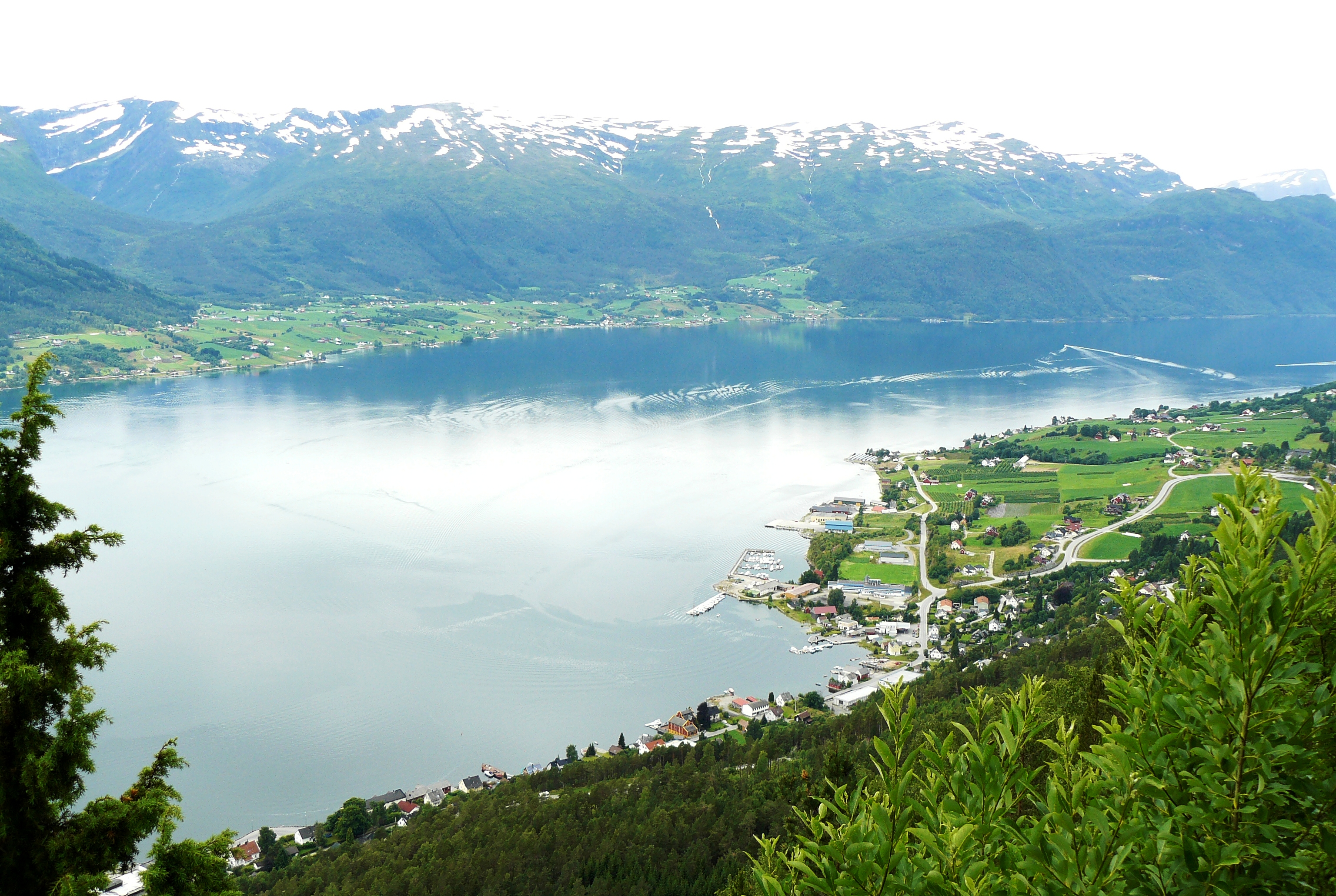 Gloppefjorden seen from Utsikten viewpoint in Gloppen